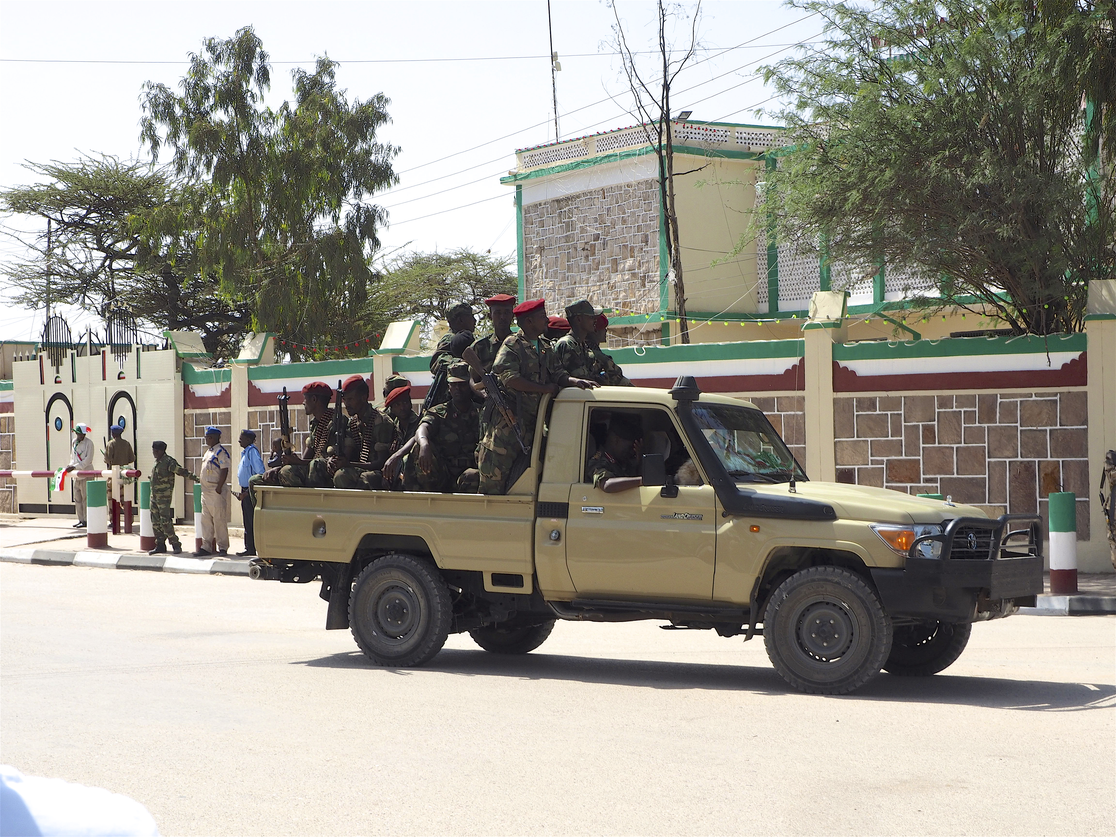 Scenes fro Somaliland Independence Day